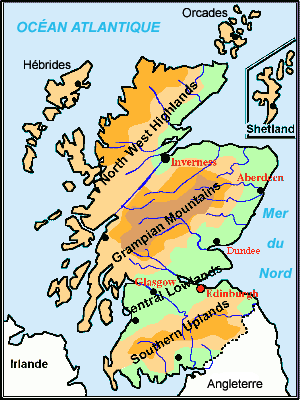 French physical map of Scotland